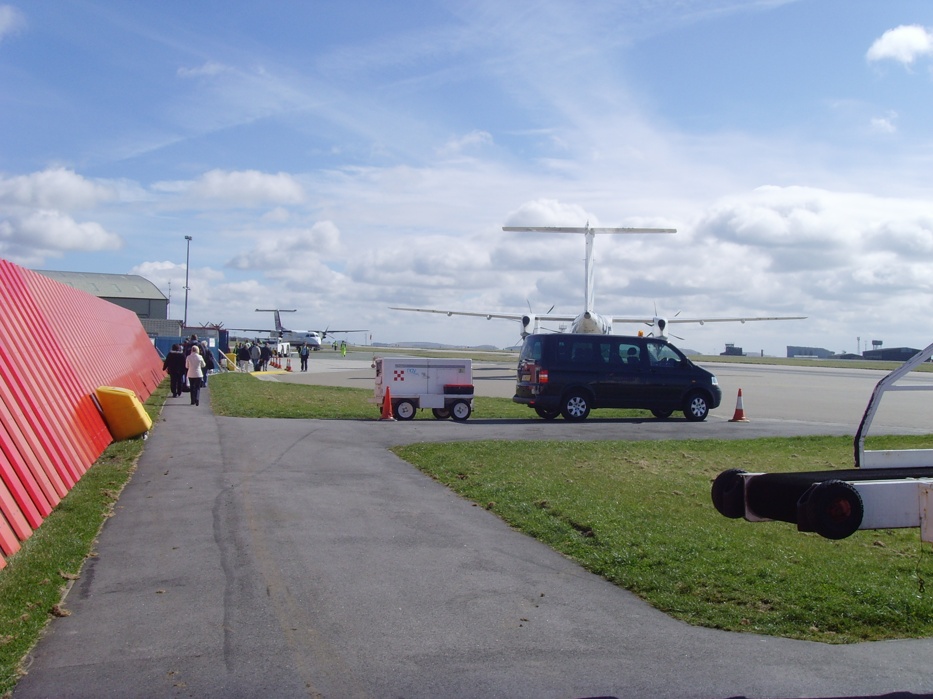 The ramp at Newquay Airport, showing a Flybe Dash 8 Q400 and an Air Southwest Dash 8-300.